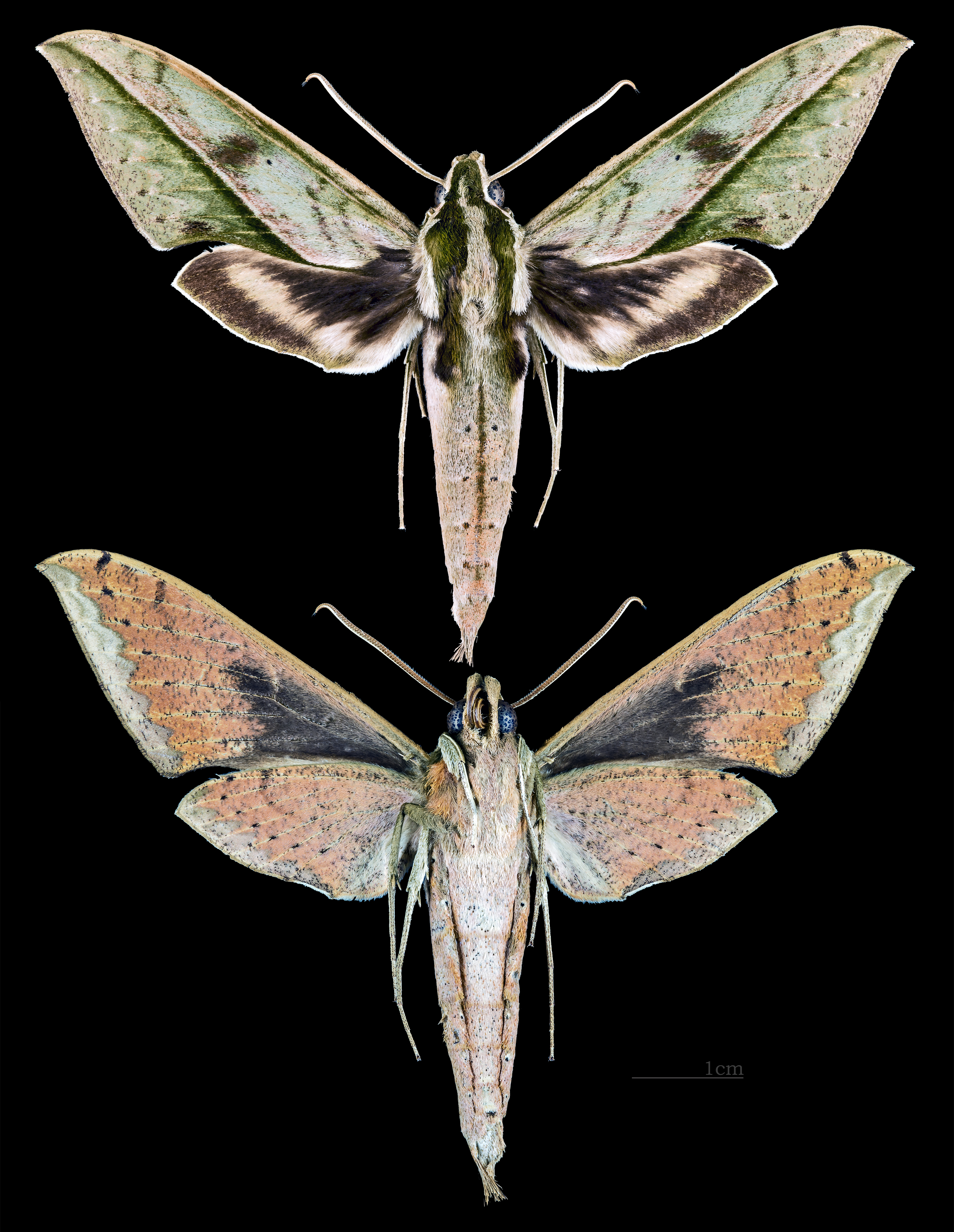 Xylophanes docilis- Two views of same specimen